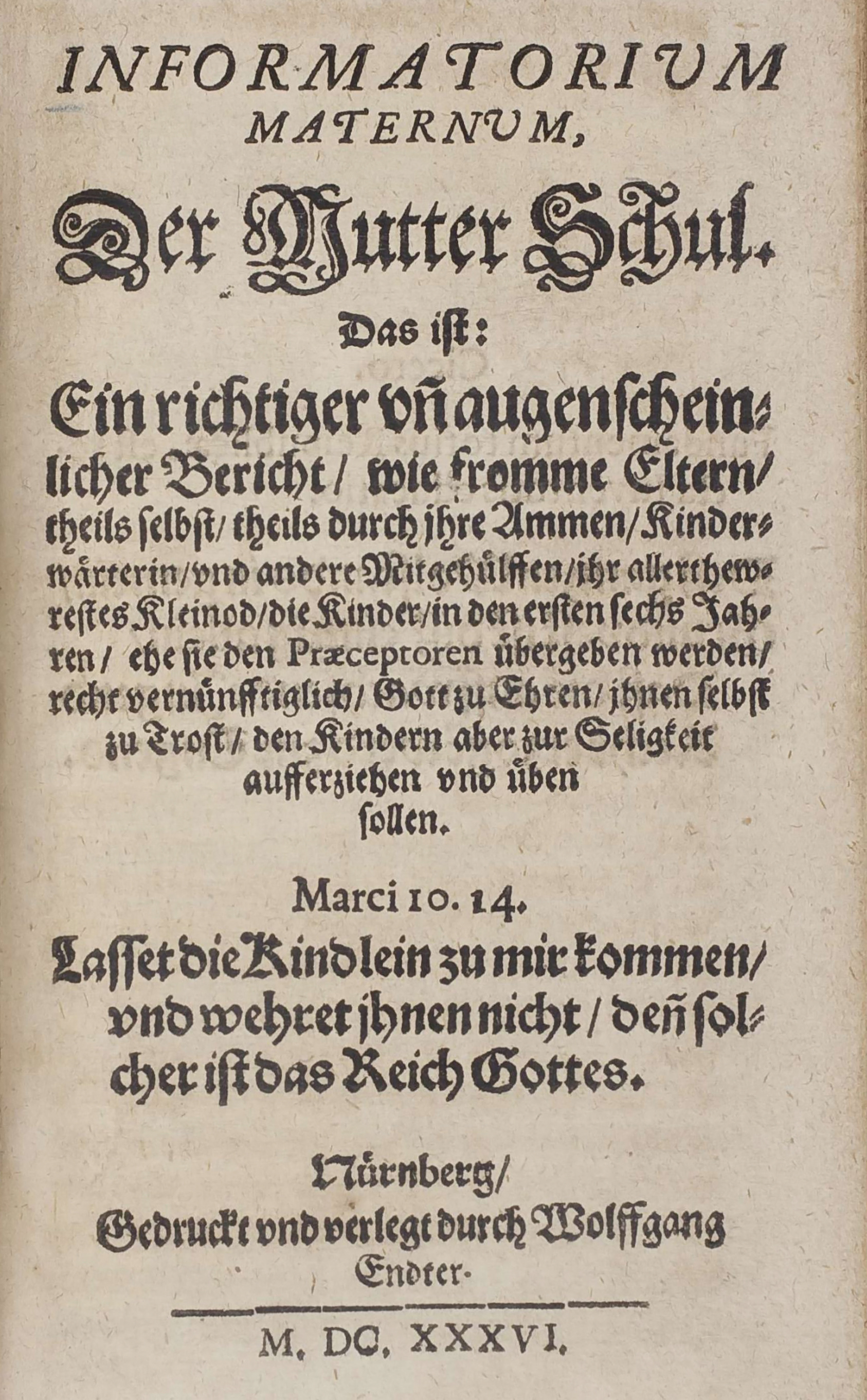 Informatorium školy mateřské by John Amos Comenius. Title page of the german edition from 1636.